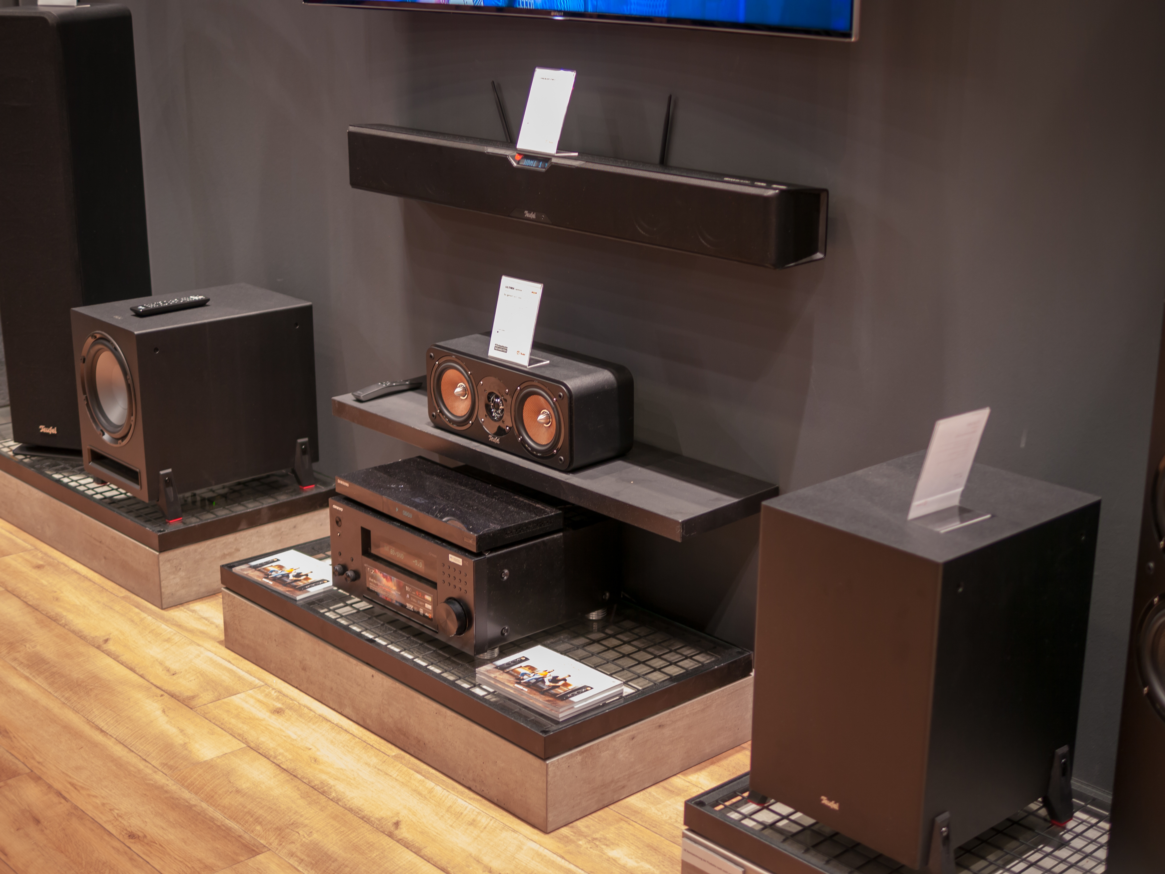 Teufel, Internationale Funkausstellung 2018, Berlin